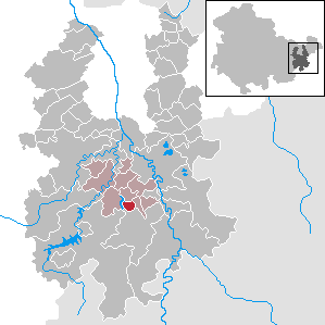 Hain in Thuringia - District Greiz